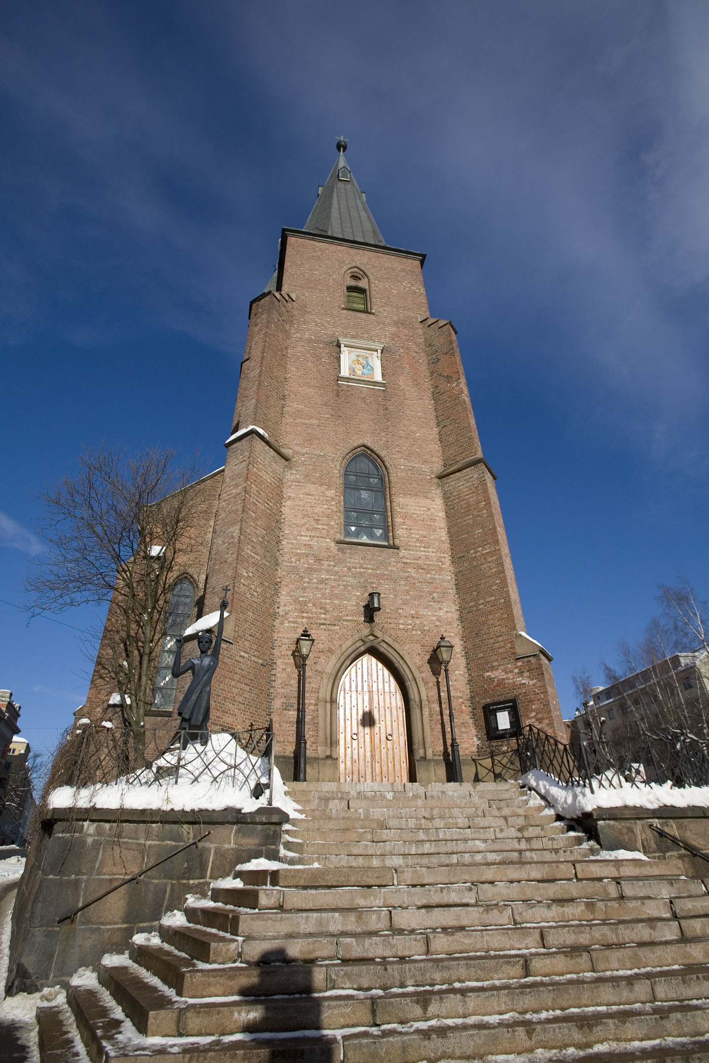 St. Olav Church in Oslo, fisheye lens.